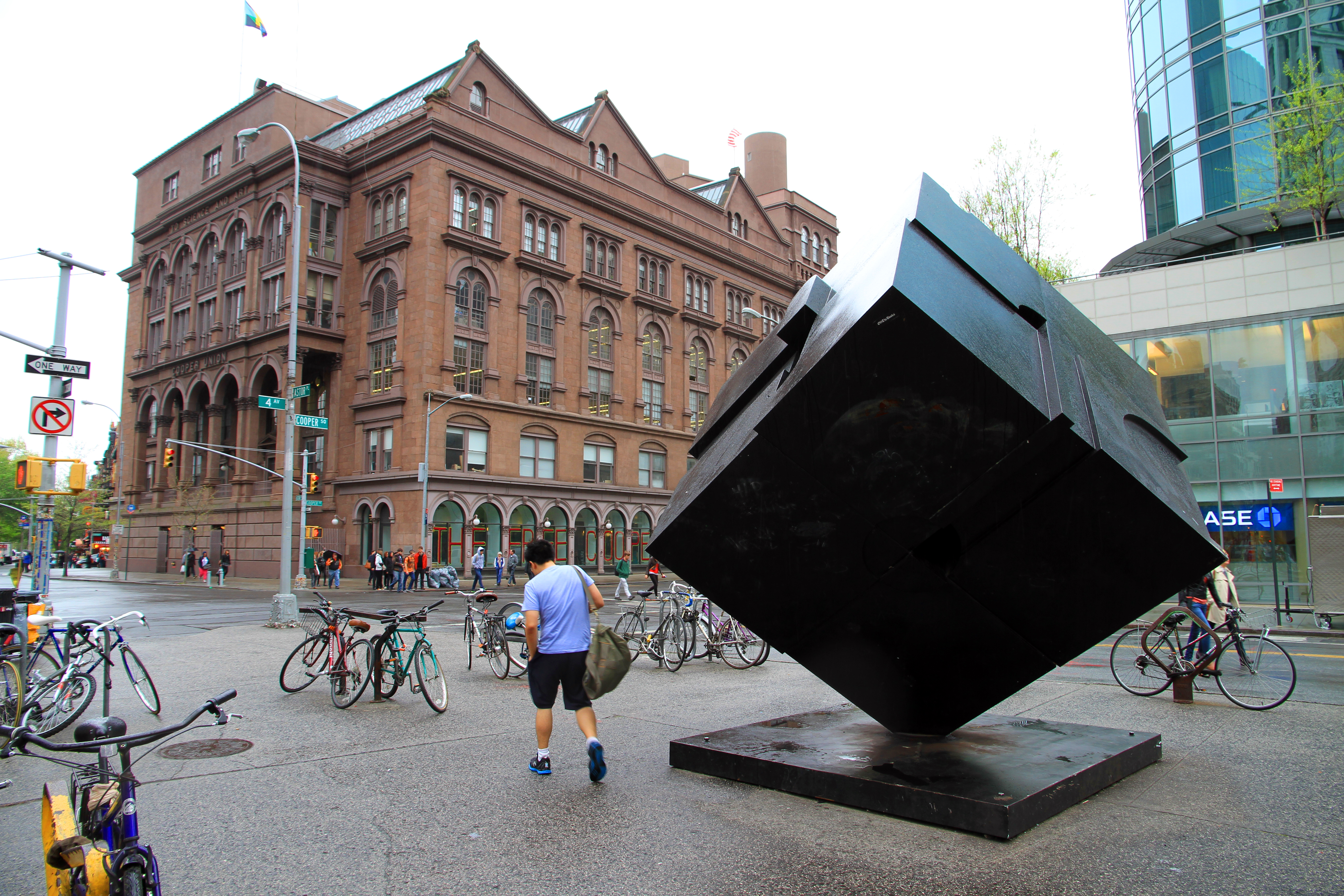 Cooper Union Building